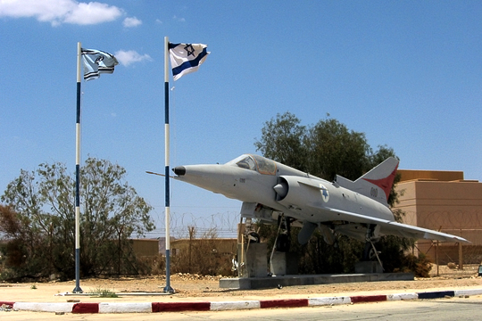 Initial IAI Kfir (sometime called "Kfir C-1") modified with small canards surfaces ( like F-21, US version) in the entrance to the Israeli Air Force Base Uvda, near Eilat. Later Kfir C-2 version had larger surface canards. The tail-number and its painting are non-original. Dedicated to Gridge